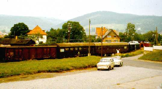 Passenger train with goods service at Floh-Seligenthal station, Thuringia, Germany.